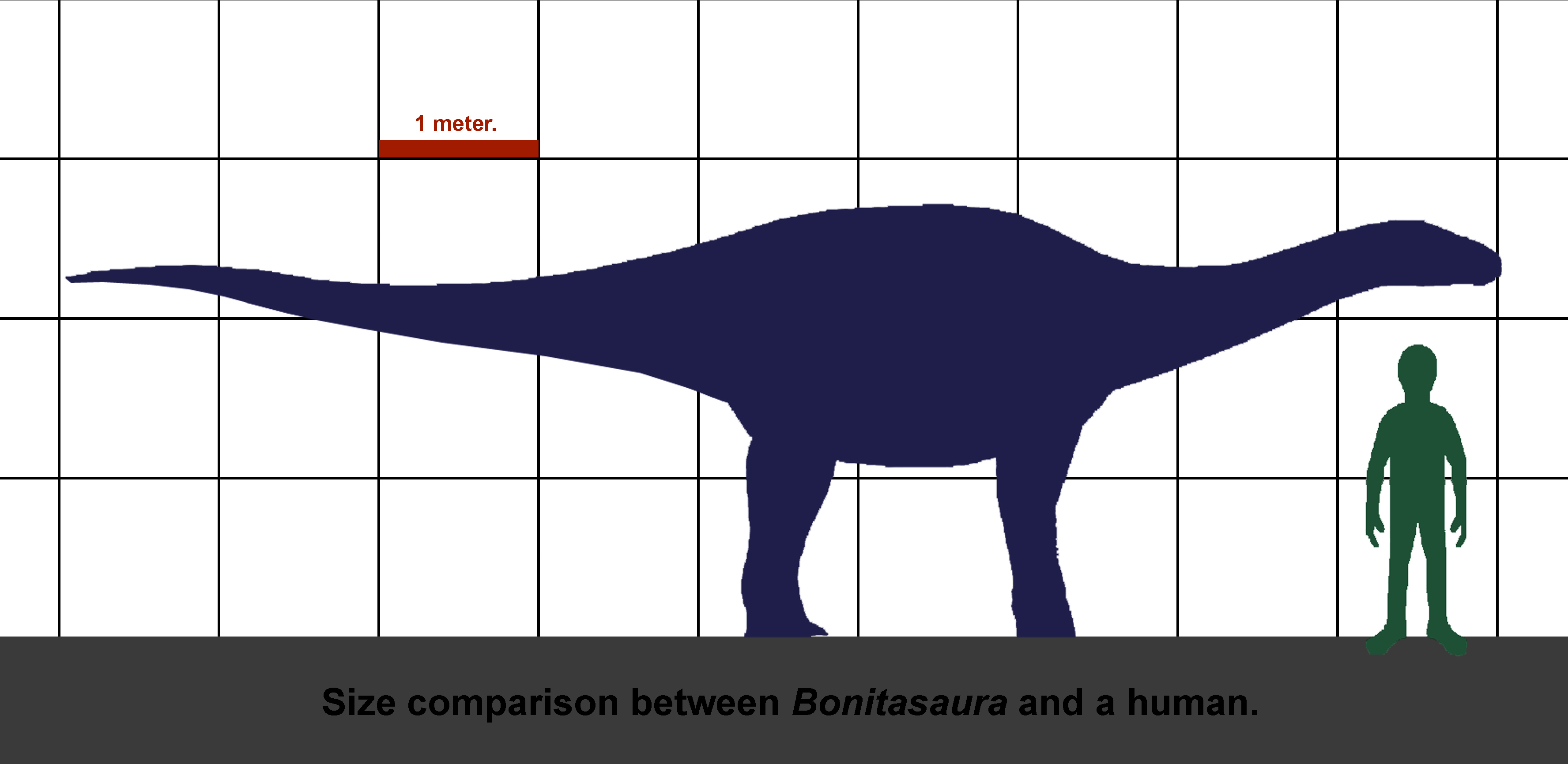 Size comparison between the sauropod dinosaur Bonitasaura and a human.